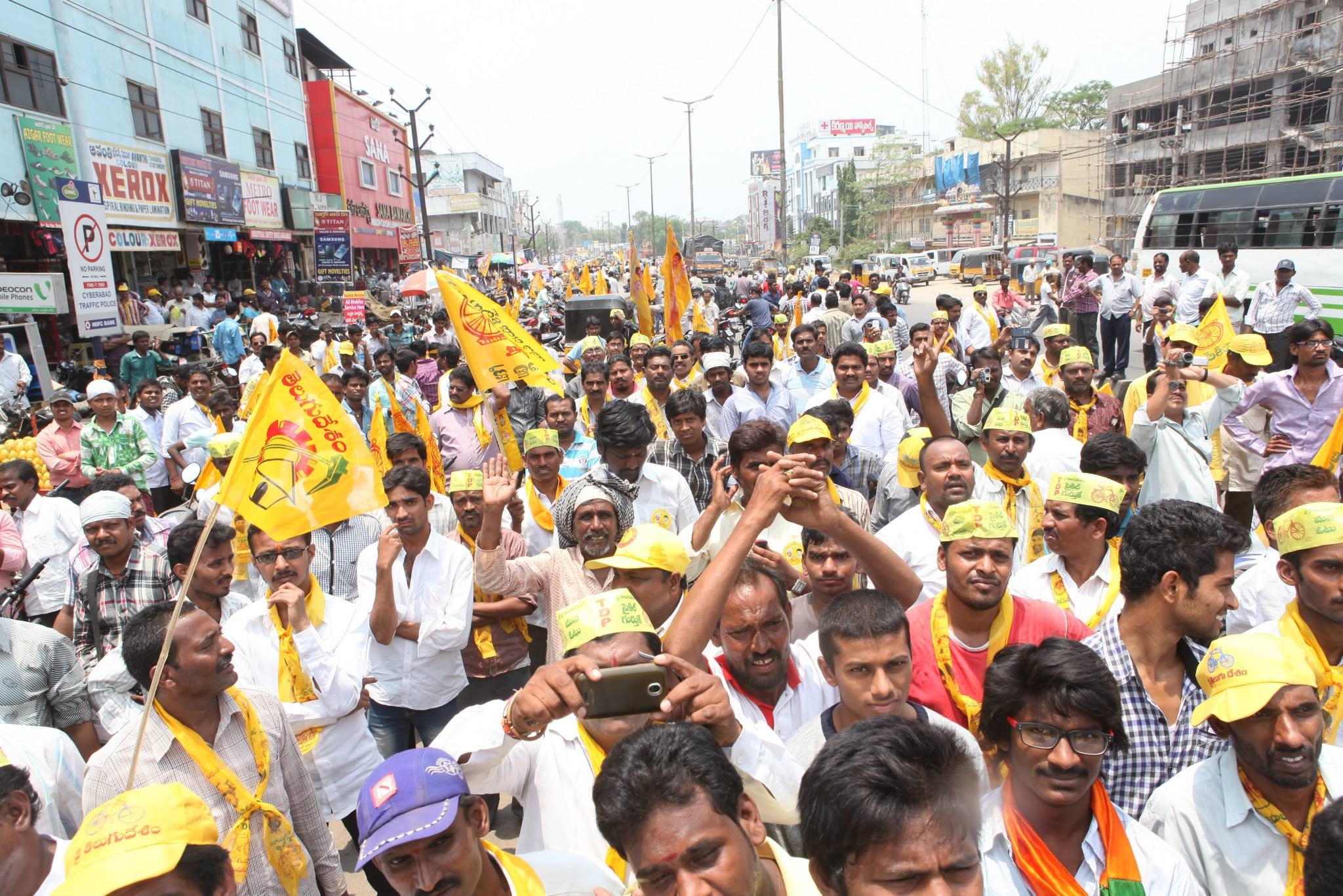 Gathering during Ch Malla Reddy Campaign for General Elections 2014